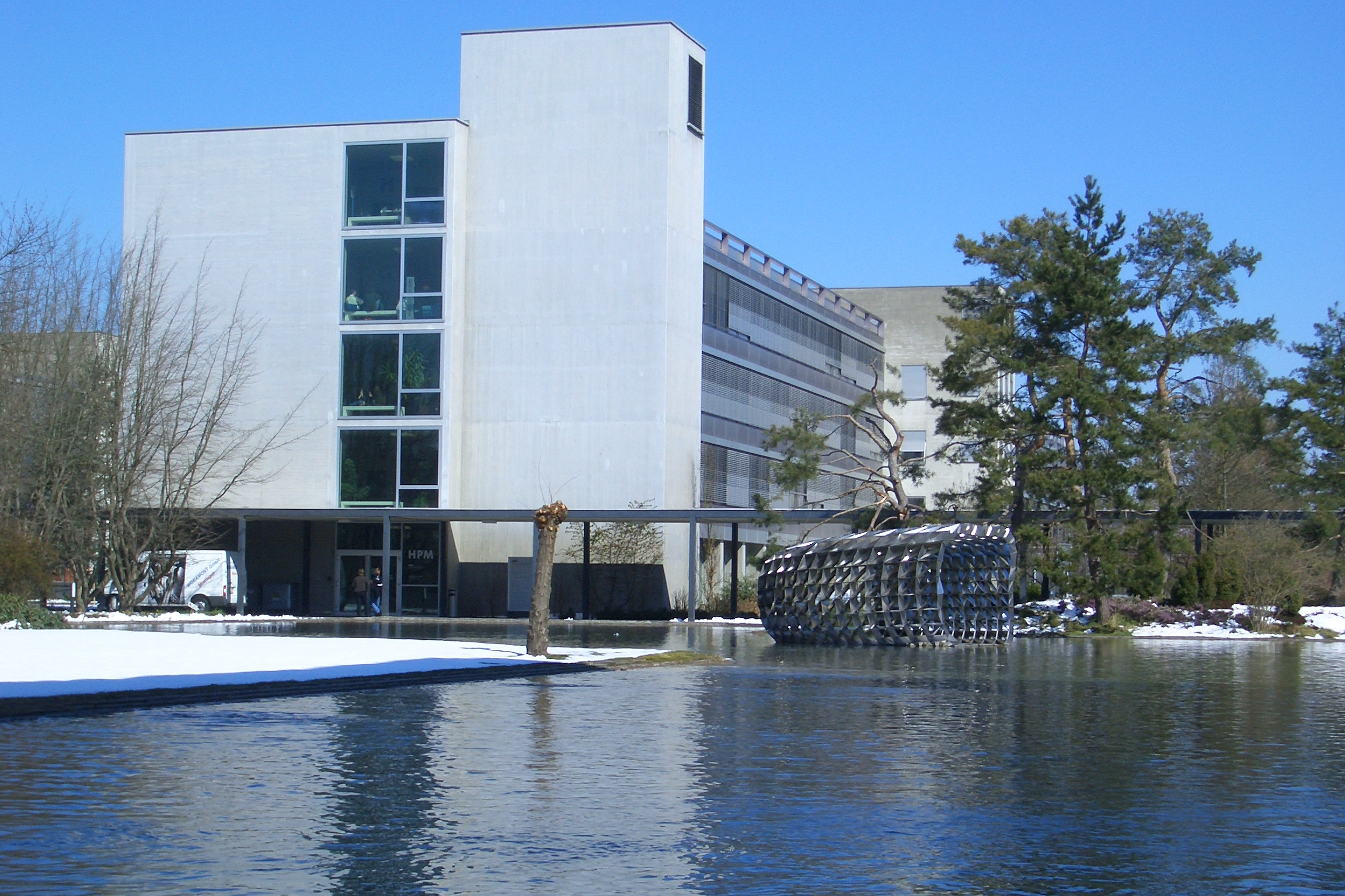 HPM Building of the ETHZ Hönggerberg